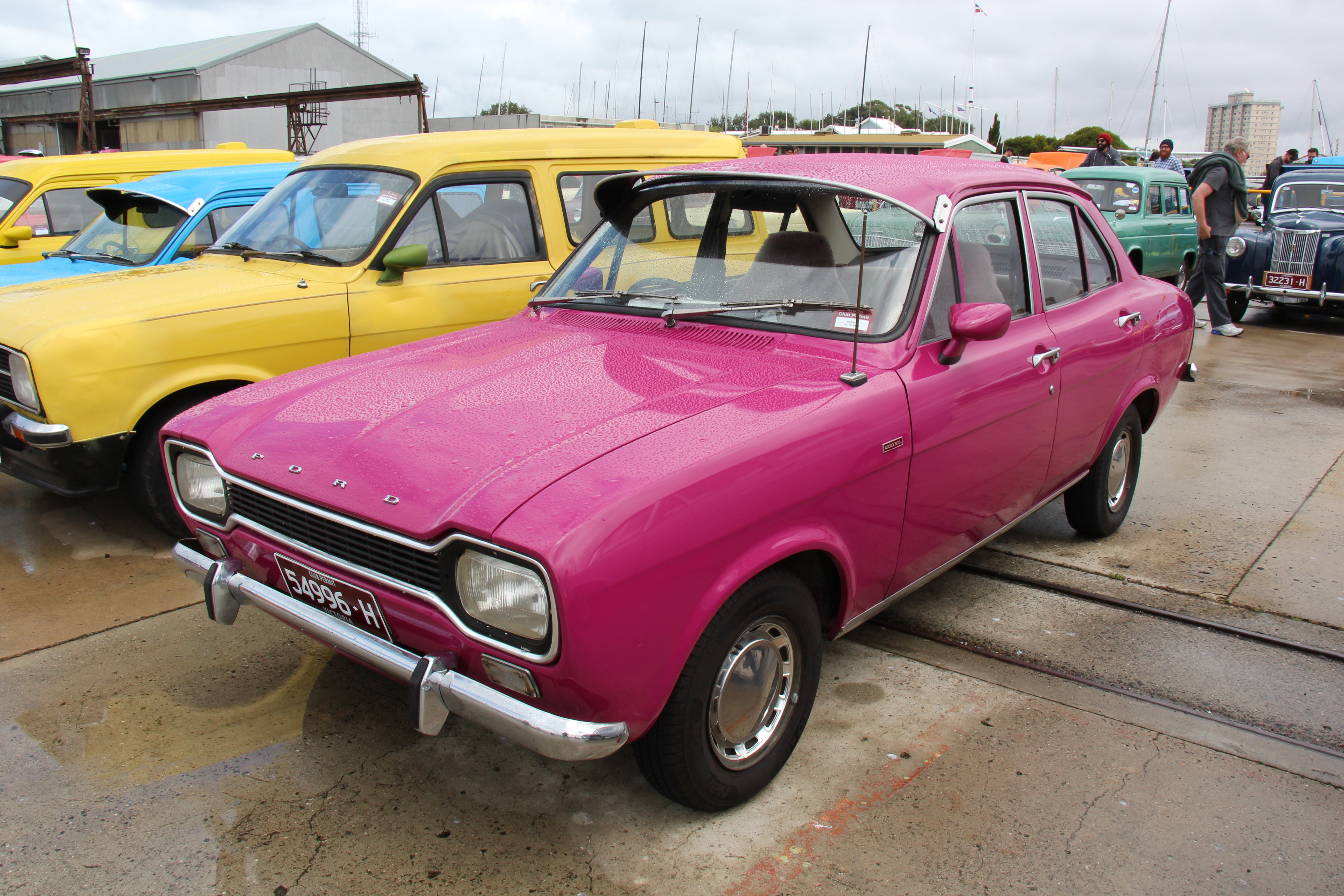 The Escort replaced the Anglia in 1968, the Mk I Escort was built until 1974 It featured the coke bottle waistline and dog bone shaped grille. Built in England and assembled in Australia and NZ. It was available in 2 or 4 door, estate and van. The Deluxe (L in Oz and NZ) got round headlights and the upmarket Super (XL in Oz and NZ) got rectangular, 1300E got a wood trim dash, the GT, extra instrumentation, Weber carb and uprated suspension. Other performance models built at the Aveley Plant were, Twin Cam, Mexico, RS1600 and RS2000 (1600 GT in Australia) Engines; 1100, 1300, also 1600, 2000 in performance models